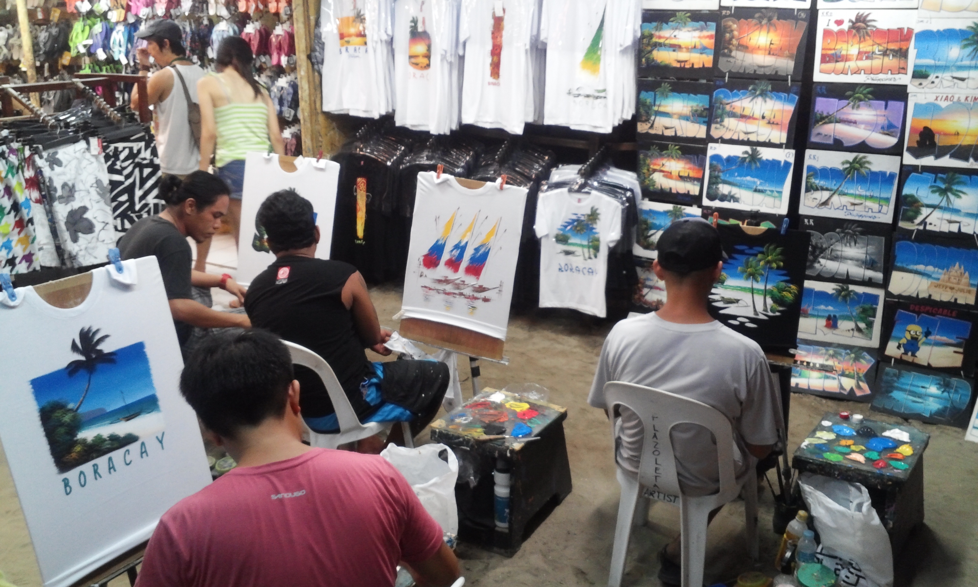 Drawers were drawing pictures on T-shirts